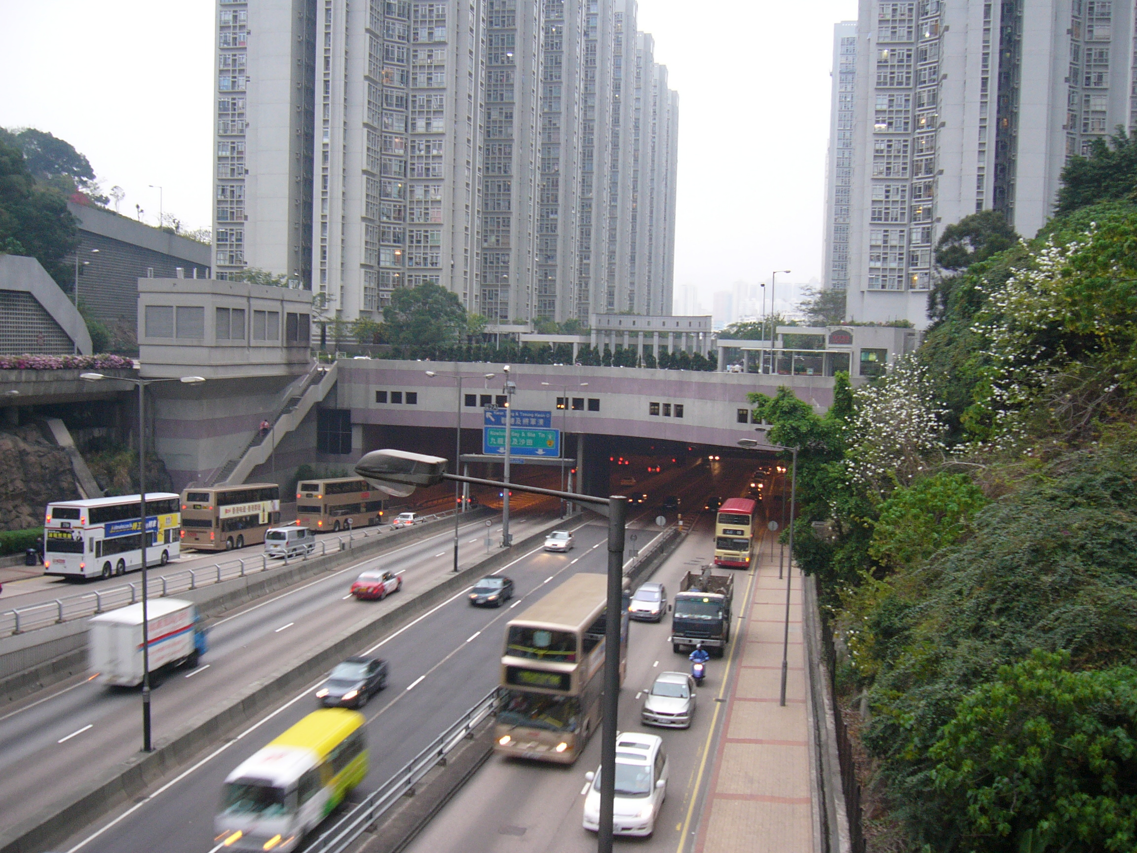 Lei Yue Mun Road, passing below Sceneway Garden, a private housing estate in Lam Tin, Hong Kong